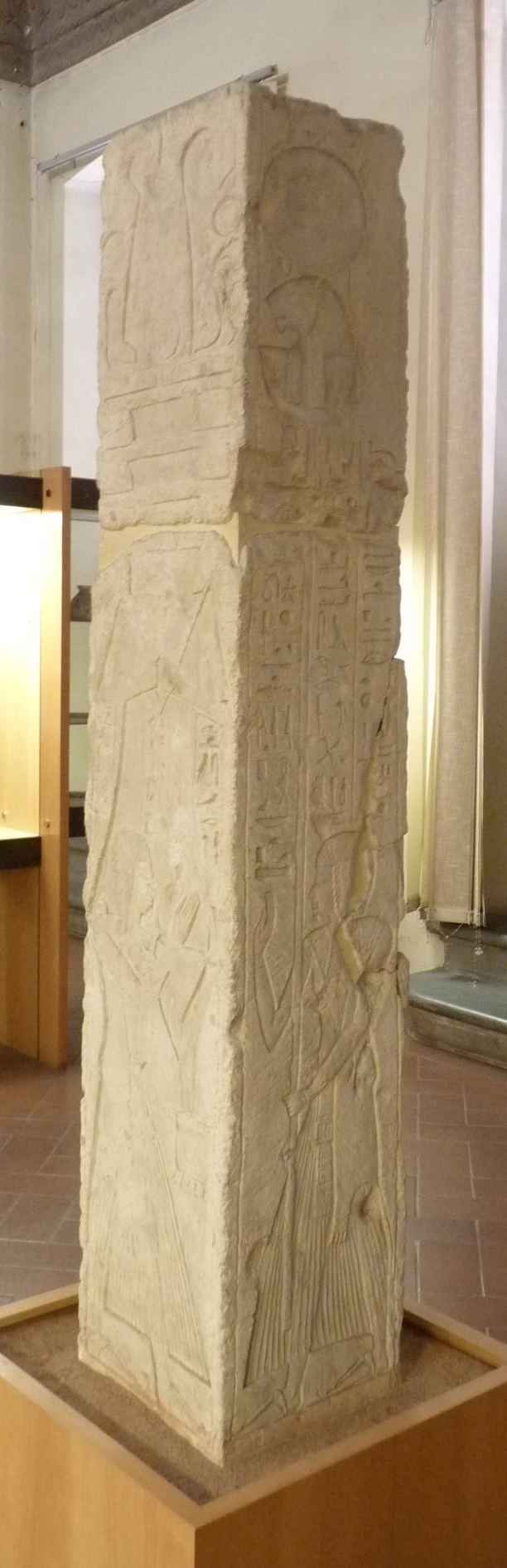 Pillar from the tomb of the High Priest of Ptah Pahemnetjer. The owner is depicted adoring a djed-pillar (left side) symbol of stability, and holding up a standard of the goddess Sekhmet (right side). Probably from Saqqara, reign of Ramesses II, 19th dynasty, New Kingdom. Florence, Museo archeologico nazionale, Inv. n. 2607, Room 7.